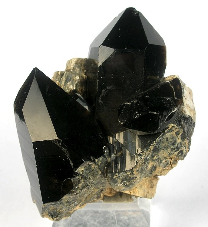 Quartz (Var.: Smoky Quartz) Locality: Dinkey Creek Mine, Fresno County, California, USA (Locality at ) Size: 7.3 x 6.2 x 4.2 cm. Razor-sharp, glassy, ink-black, smoky quartz crystals with a hint of gemminess are nicely framed by muscovite books and feldspar crystals on this very aesthetic specimen from the less well-known Dinkey Creek Mine of California.